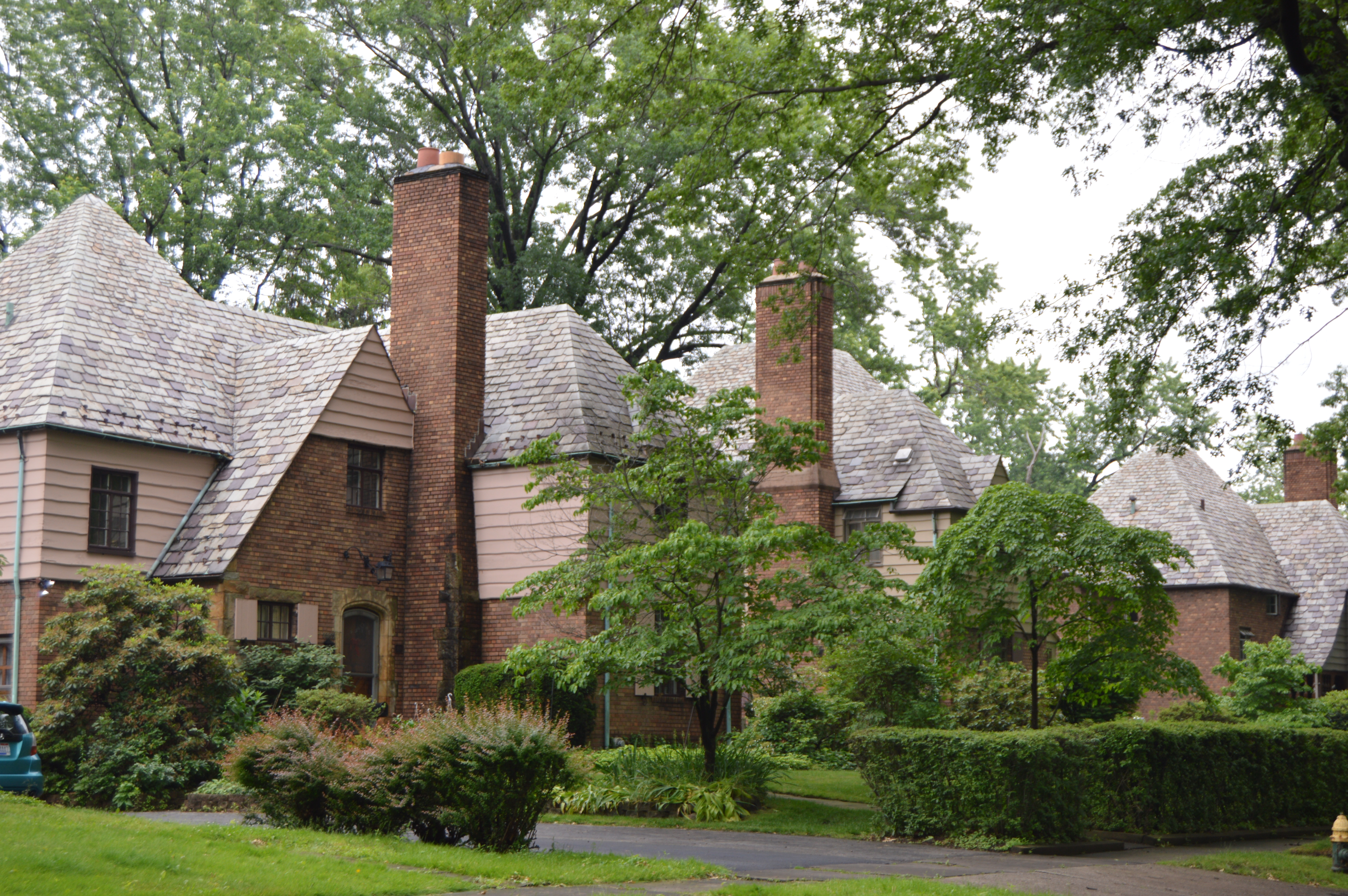 Houses on the northern side of Brewster Road, immediately east of the Henley Road intersection, in East Cleveland, Ohio, United States. This neighborhood, Forest Hill, has been listed on the National Register of Historic Places as a historic district.